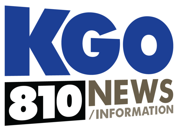 Logo of the radio station KGO.